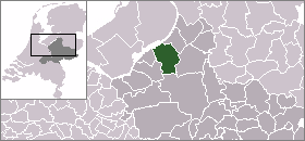 Locator map of Dutch municipalities in Gelderland (LocatieNunspeet.png)